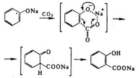 Կոլբեի ռեակցիա